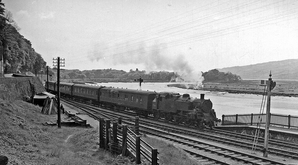 Local train from Aberystwyth at Glandyfi Station. View SW, towards Aberystwth; ex-Cambrian Oswestry - Machynlleth - Aberystwyth main line, here beside the Dovey Estuary. The train is going towards Dovey Junction and Machynlleth, headed by BR Standard 3MT 2-6-2T No. 82006.